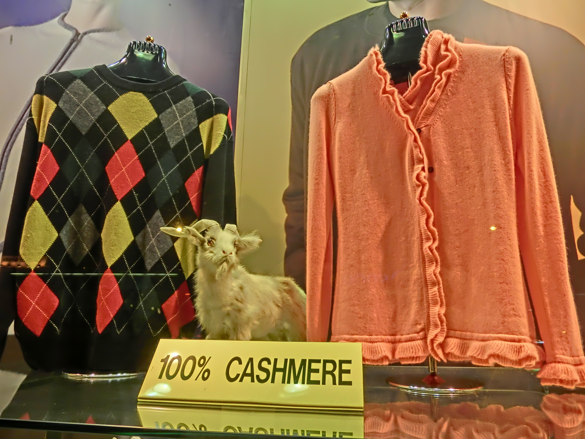 Night in Tsim Sha Tsui, Hong Kong